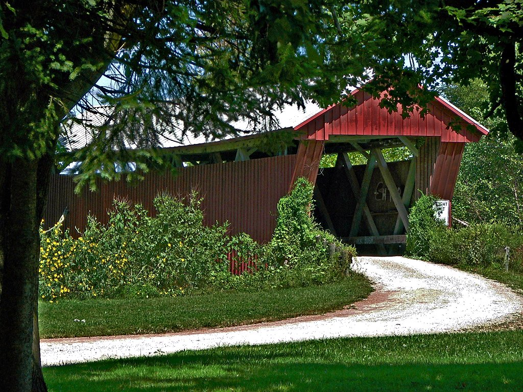 One end of the Johnson Road Covered Bridge, which carries Johnson Road over the Brushy Fork of the Little Scioto River near Petersburg in southwestern Scioto Township, Jackson County, Ohio, United States. Built in 1870, it is listed on the National Register of Historic Places.